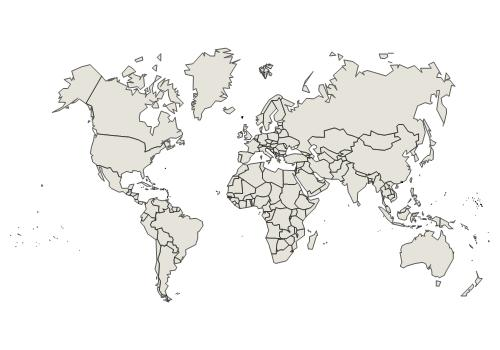 World map with van der Grinten projection